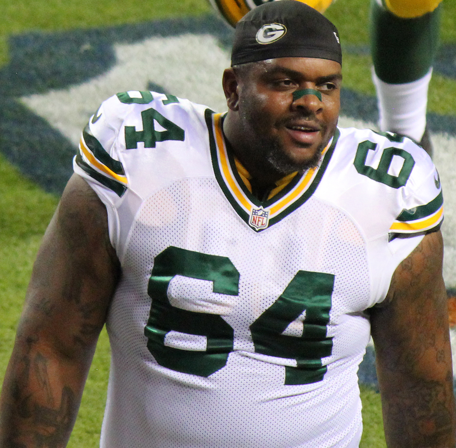 Mike Pennel, a player on the National Football League.